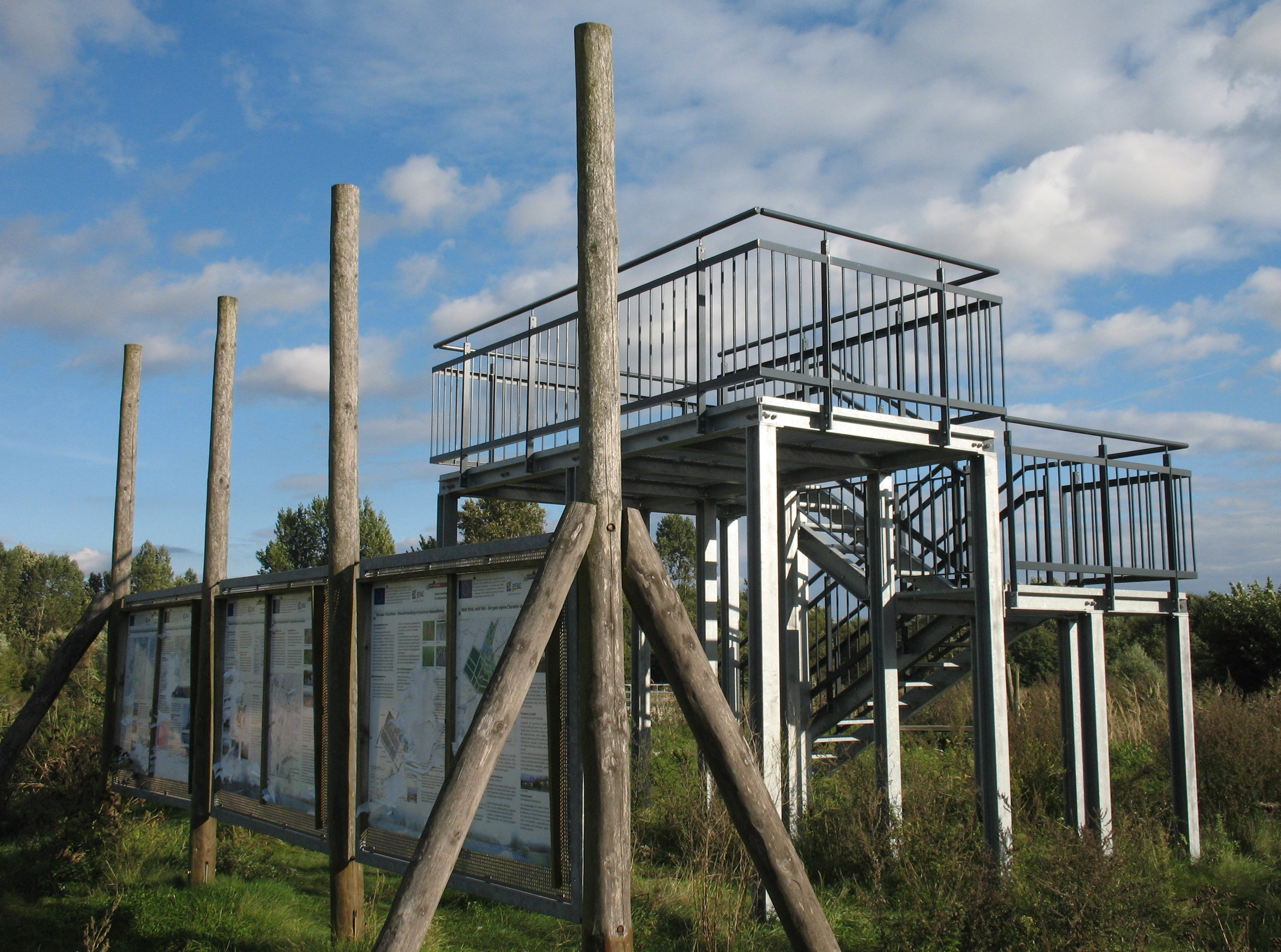 View tower in Panketal-Hobrechtsfelde in Brandenburg, Germany